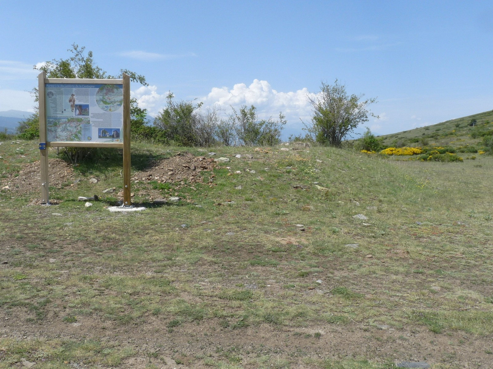 Remains of hospital domus and chapel Saint-Vincent de Portolès, Font-Romeu, Pyrénées-Orientales, France (located 100 meters north of via Ceretana)